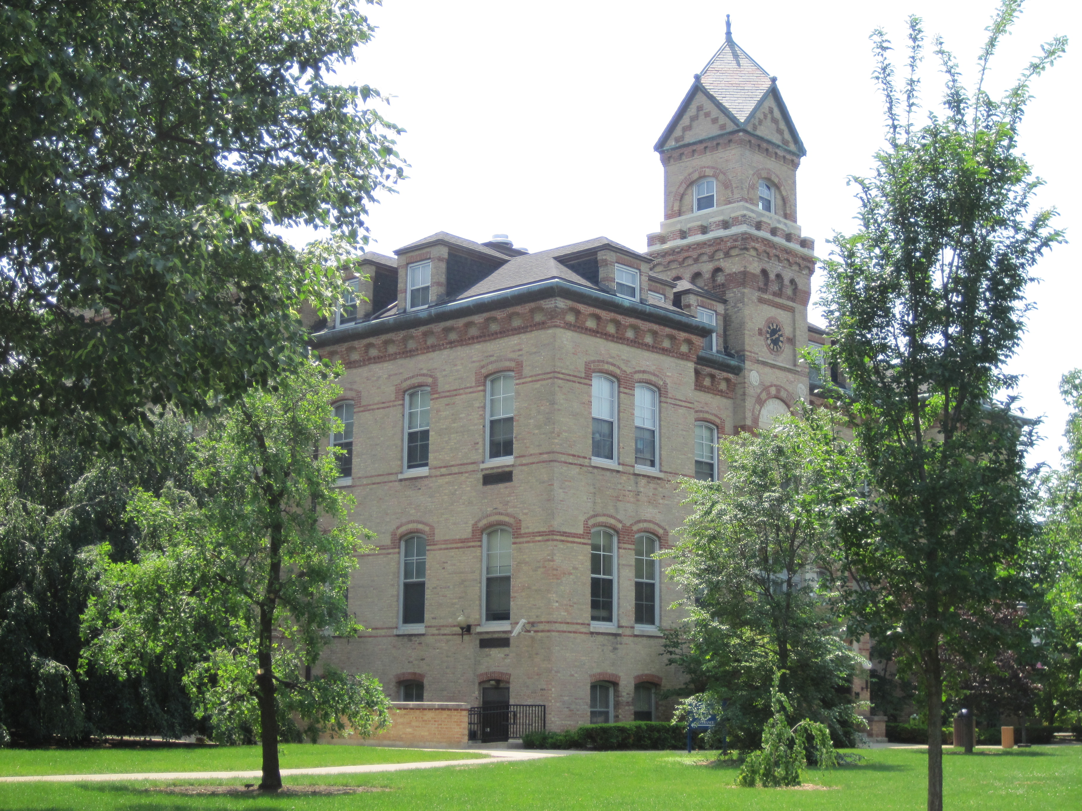 I (Teemu08 (talk)) took this image on June 6, 2011